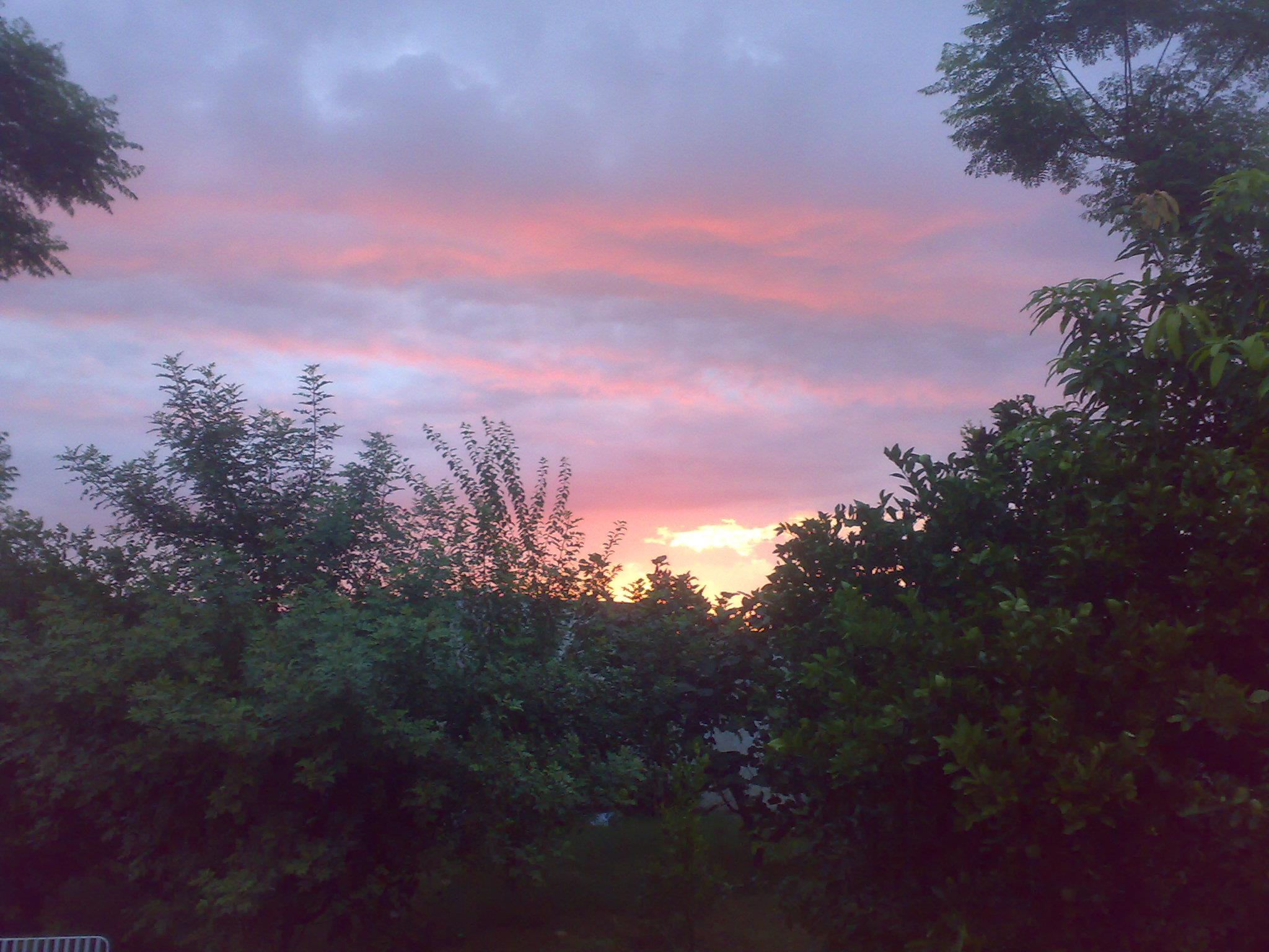 sunrise at my home